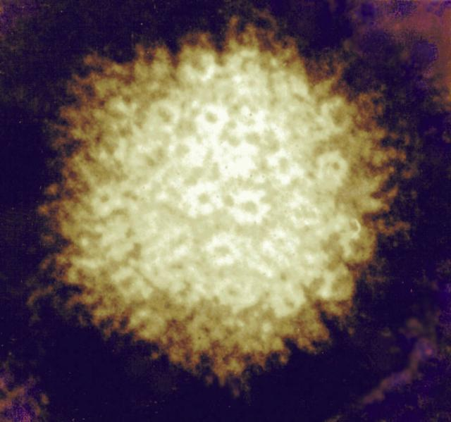 Firey-looking electron micrograph of herpes simplex virus. Credit: NIAID